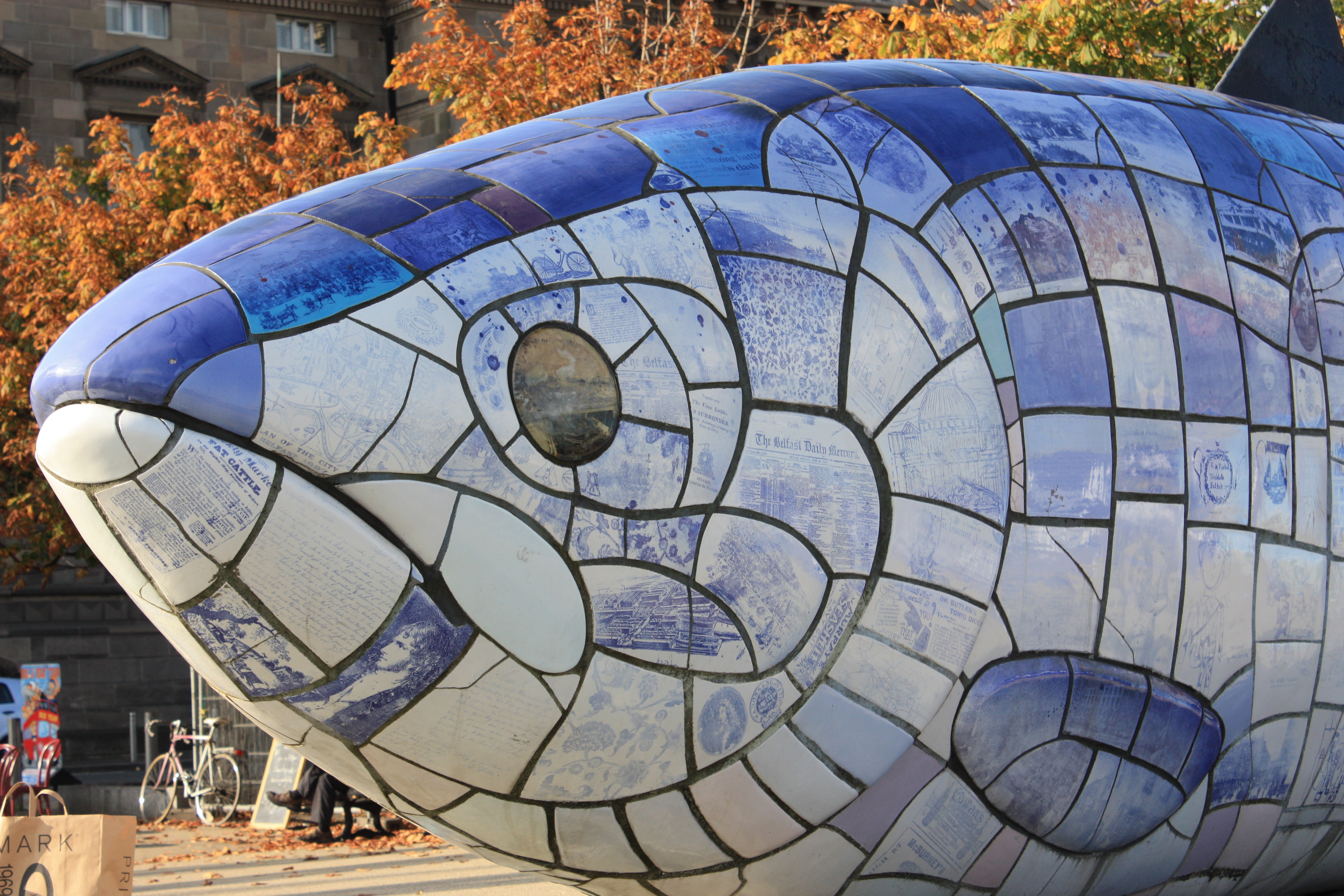 "The Big Fish" by John Kindness, Donegall Quay, Belfast, Northern Ireland, October 2009